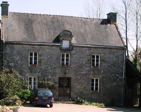 Old house in Lizio 2.